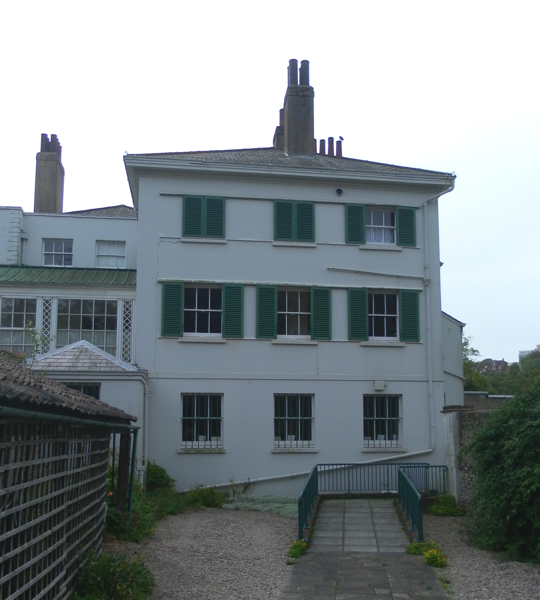 Preston Manor, Preston Park, City of Brighton and Hove, England. This view shows the west wing, added in 1905.